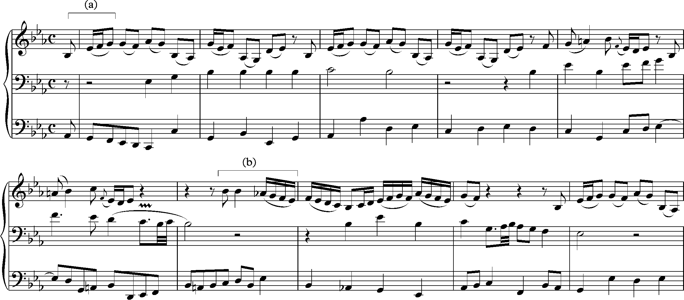 Bach Chorale Prelude "Wachet auf", BWV 645